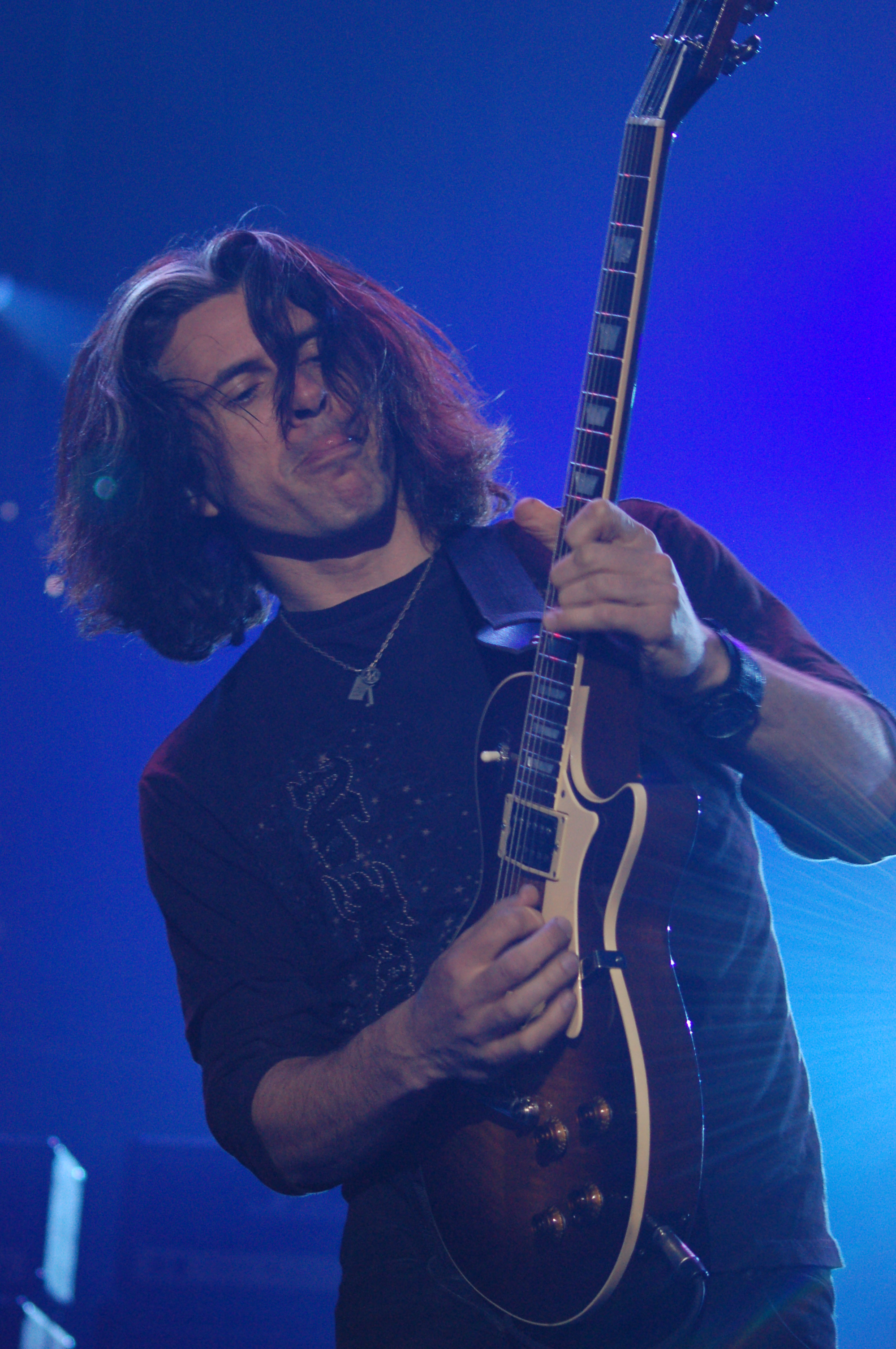 Alex Skolnick from Testament during Metalmania 2007 festival